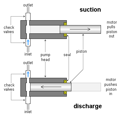 Cross-sectional diagrams of piston metering pump head towards end of suction and discharge strokes. Blue arrow shows direction of flow allowed through check valves. H Padleckas created this image file at the end of August 2006 especially for use in articles on "Metering pump" in Wikimedia. H Padleckas 03:02, 16 September 2006 (UTC)